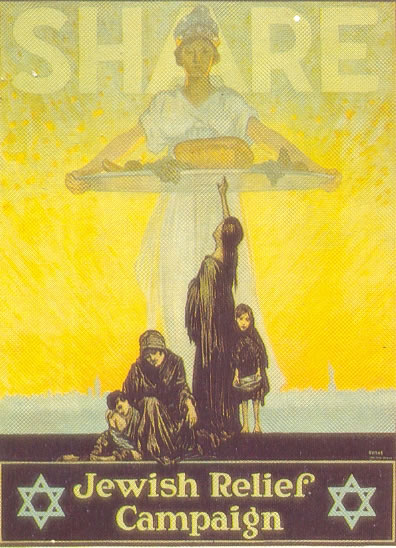 Share: Jewish Relief Campaign Poster by American-Jewish organisation Joint